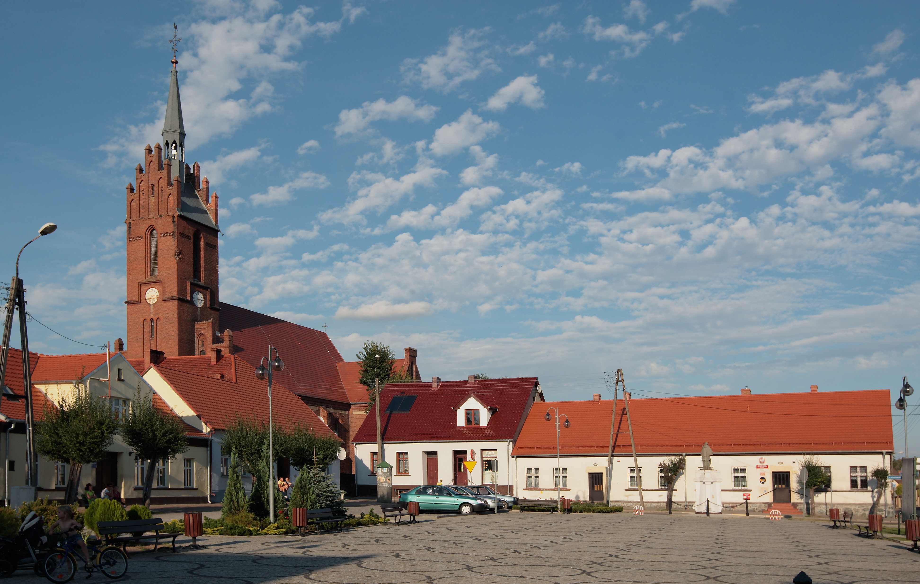 Bledzew, Marketplace - the east side